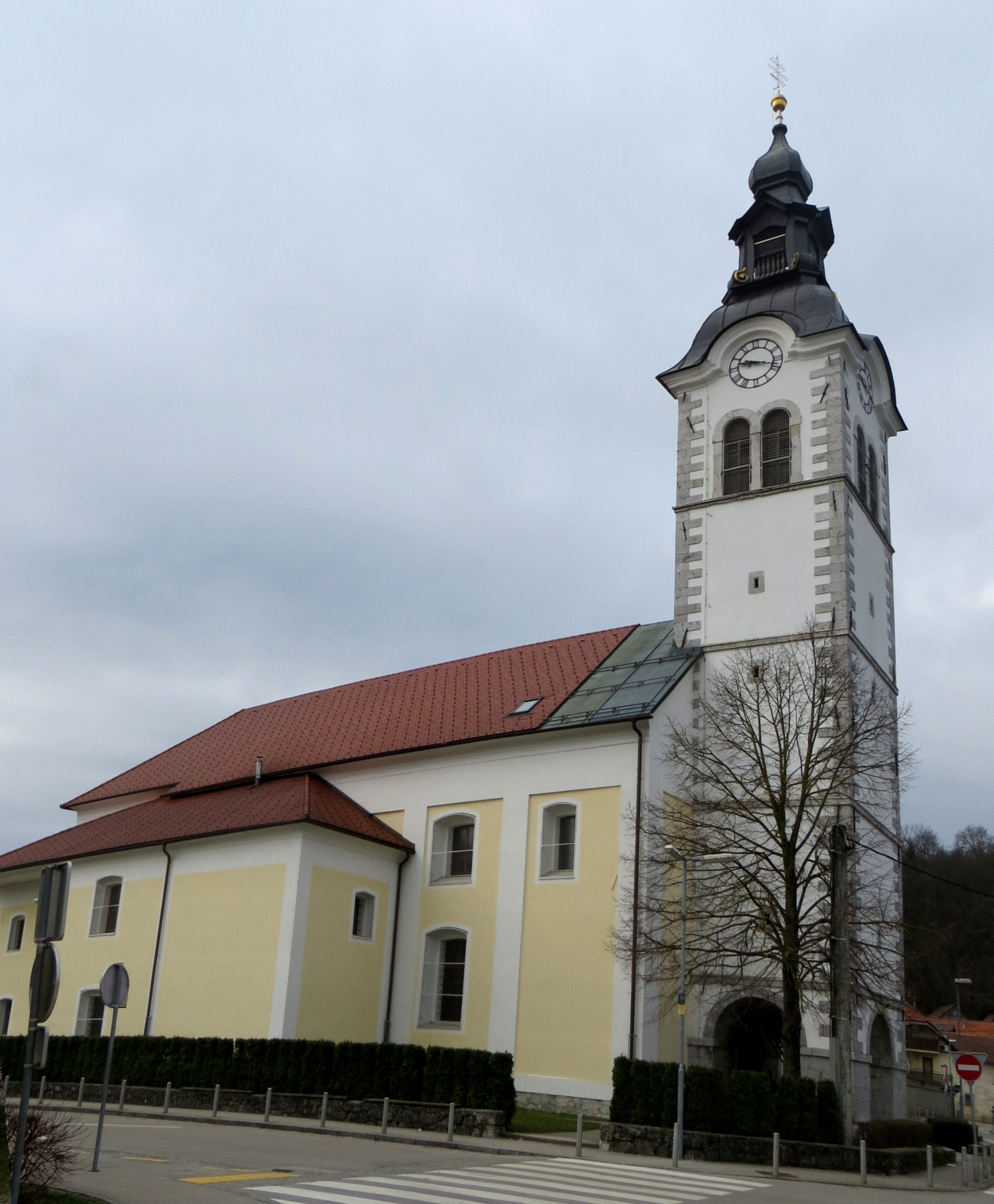 Saint Martin's Church in Ig, Municipality of Ig, Slovenia